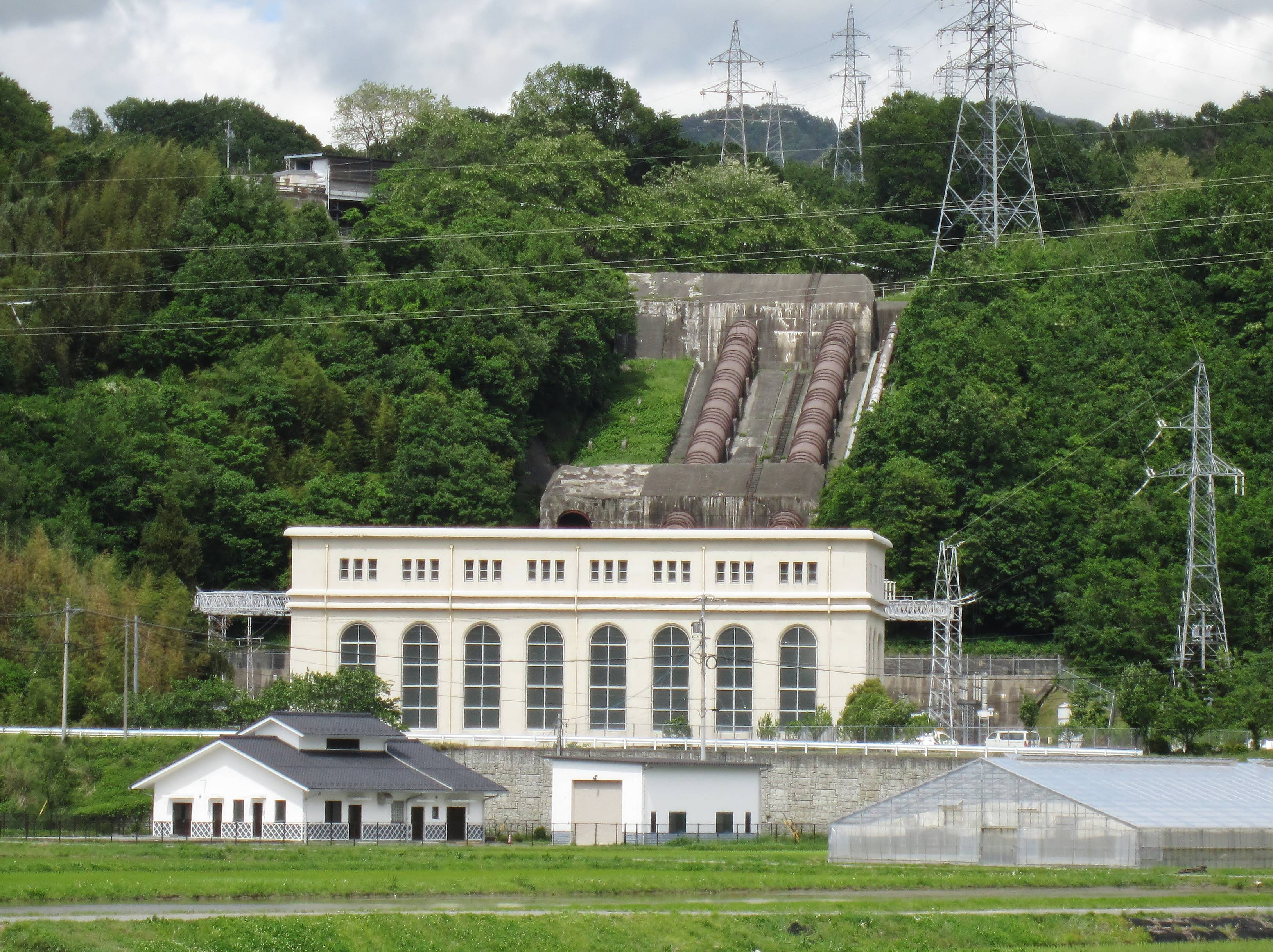 Minakata power station.